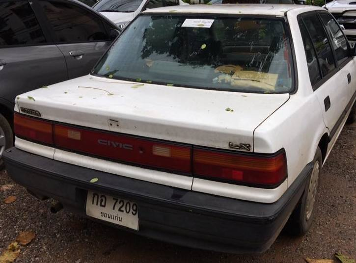 Honda Civic (EF) LX sedan